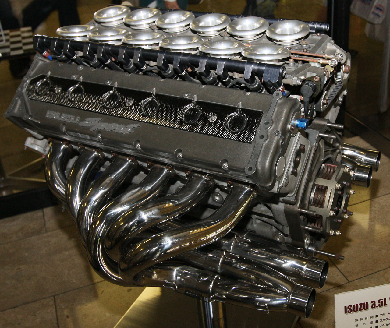 1991 Isuzu P799WE engine from the Tamiya Corporation's Collection. V12 (75 degree), 3,500cc. ---- Isuzu developed the engine not to compete in Formula One races but to test the level of own gasoline engine design and engineering. The engine was incorporated in the Lotus 102C test car.